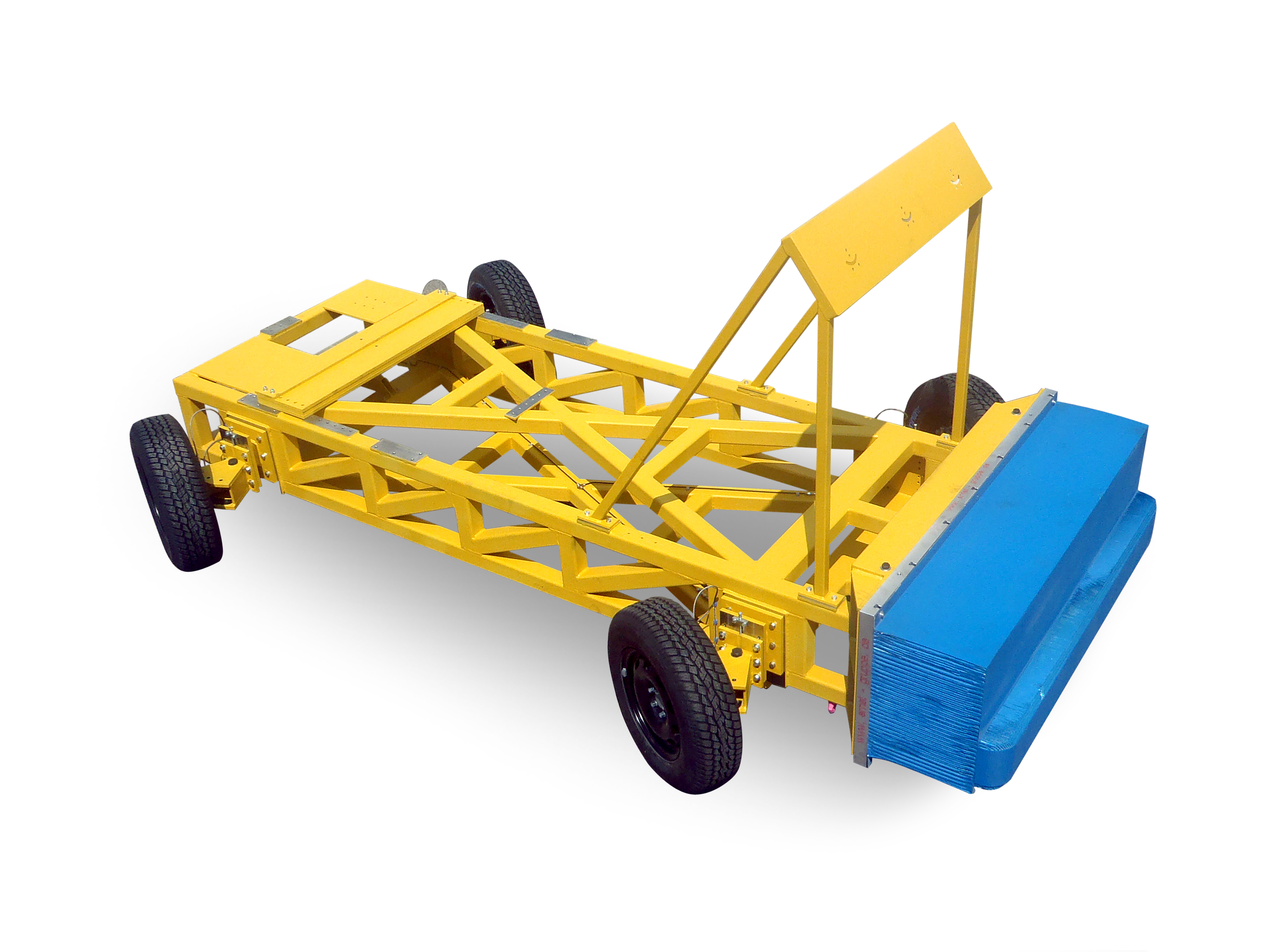 27° Crash Cart for Crashtest after FMVSS 214 side impact